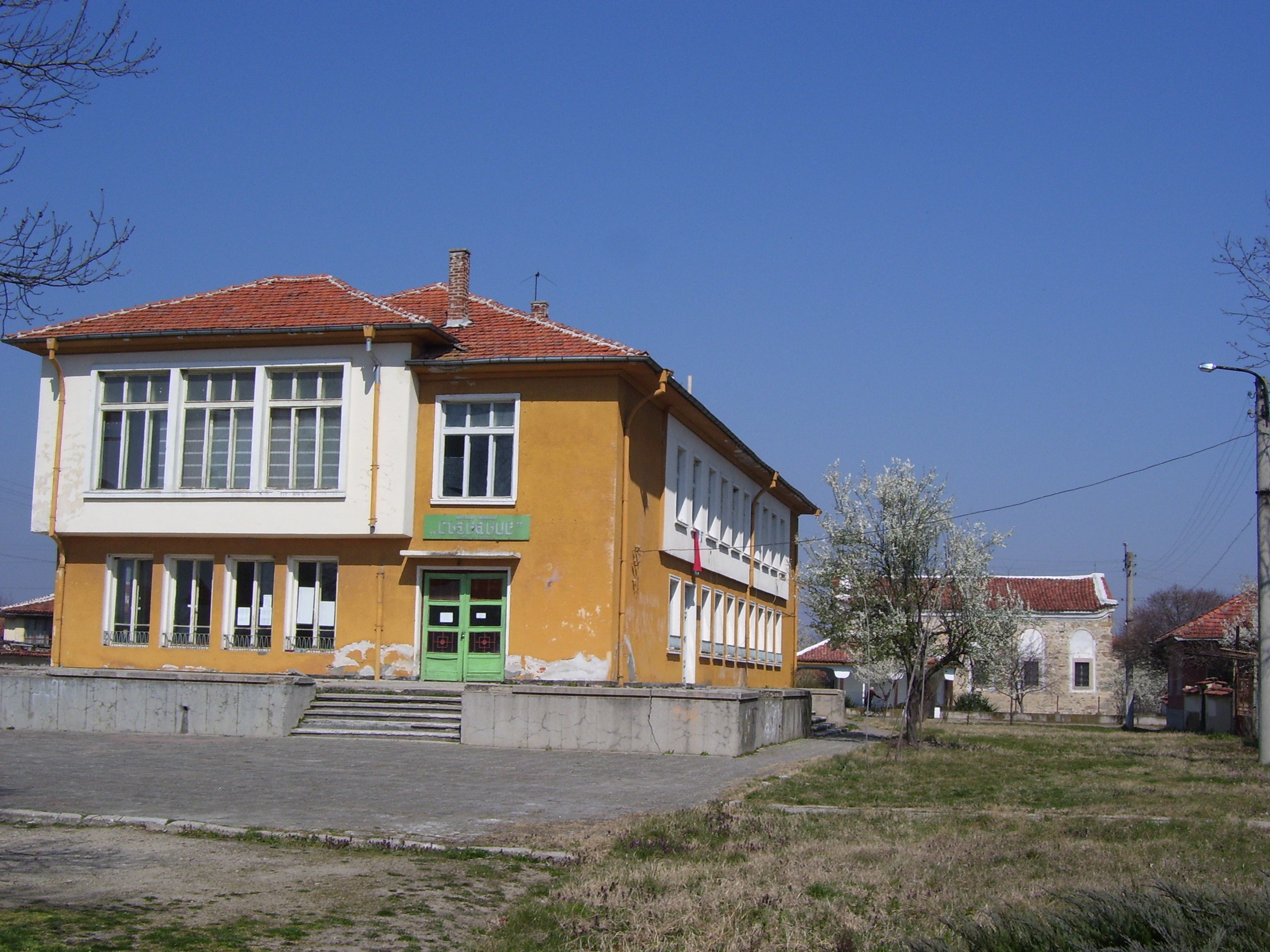 Municipality hall of the village of Razhevo, Plovdiv Province, Bulgaria